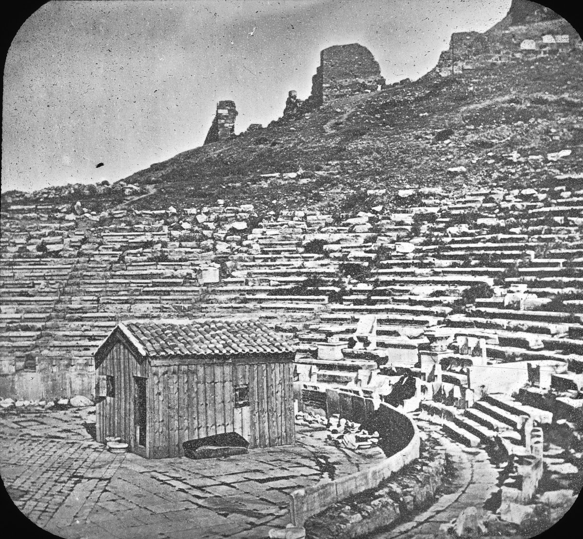 Theater of Dionysius, Athens, Greece. Theater of Dionysius, Athens. Brooklyn Museum Archives, Goodyear Archival Collection (S03_06_01_020 image 2458). Help us map this image by using Suggestify to suggest a location for it.